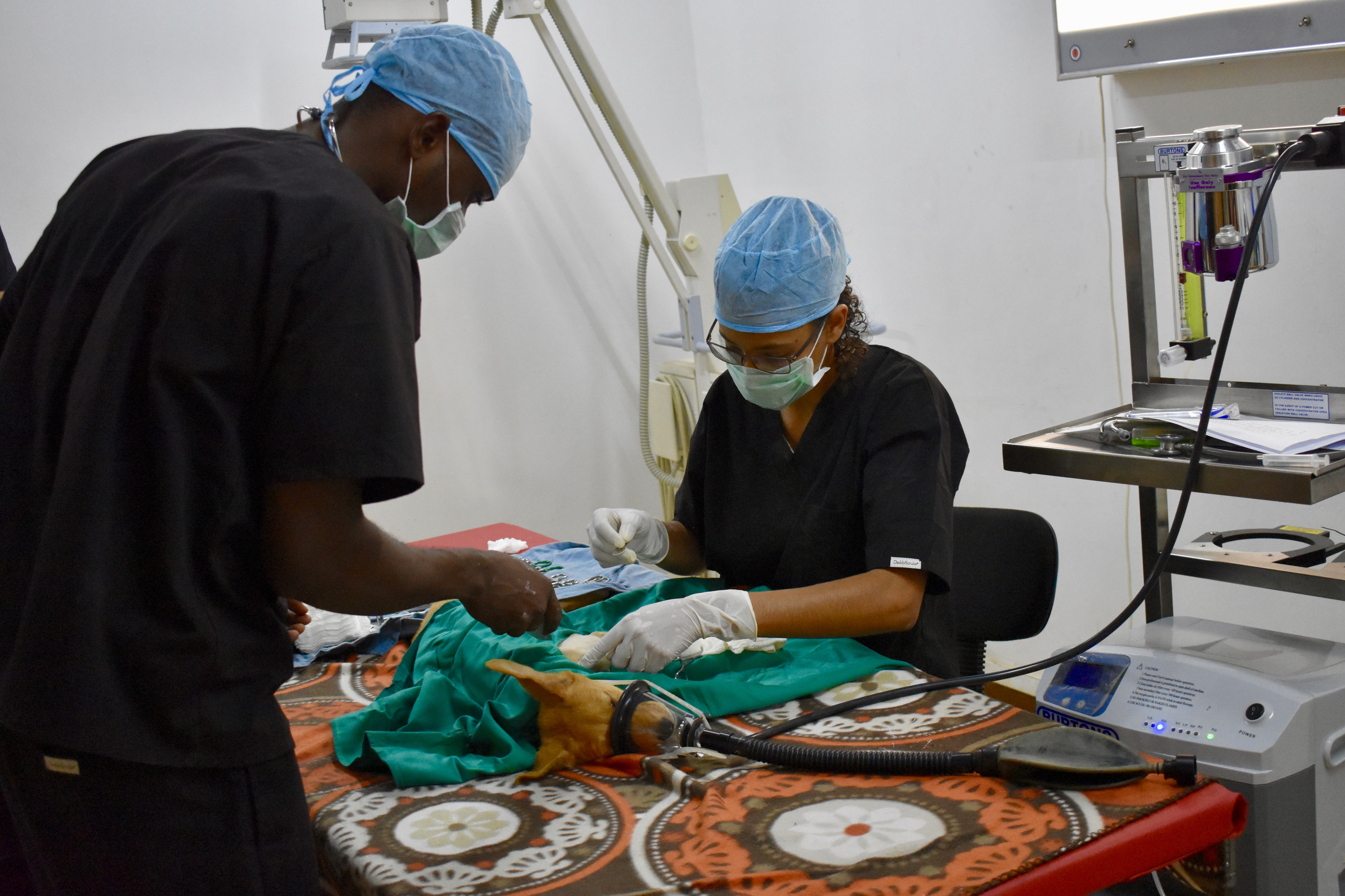 Vets from the DRC and Rwanda perform surgery on a young dog at ALL CREATURES Animal Welfare Clinic in Malawi This is an image of "African people at work" from Malawi